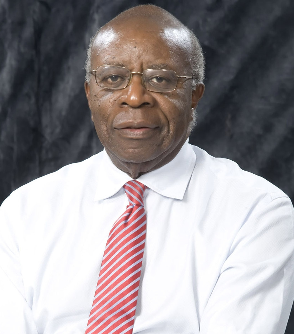 Twagiramungu Faustin also known as Rukokoma, he is the founder and the chairman of the politicalo party RDI-Rwanda Rwiza.